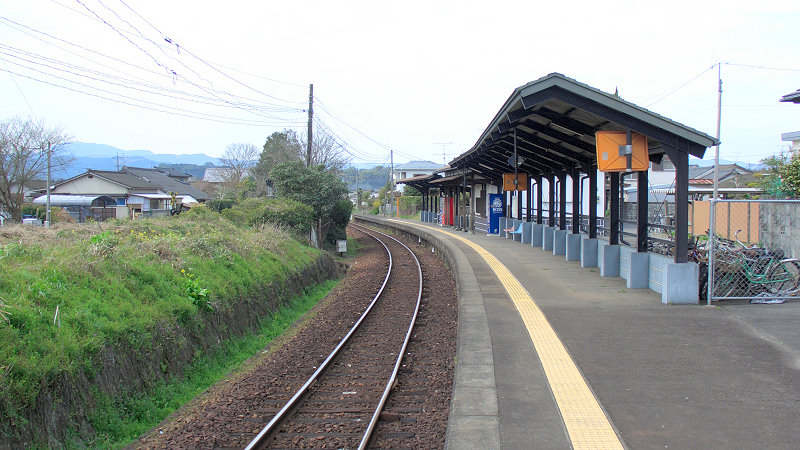 Kumagawa Railroad Sagarahan Ganjoji Station platform, view towards Hitoyohi-Onsen, 14 March 2007